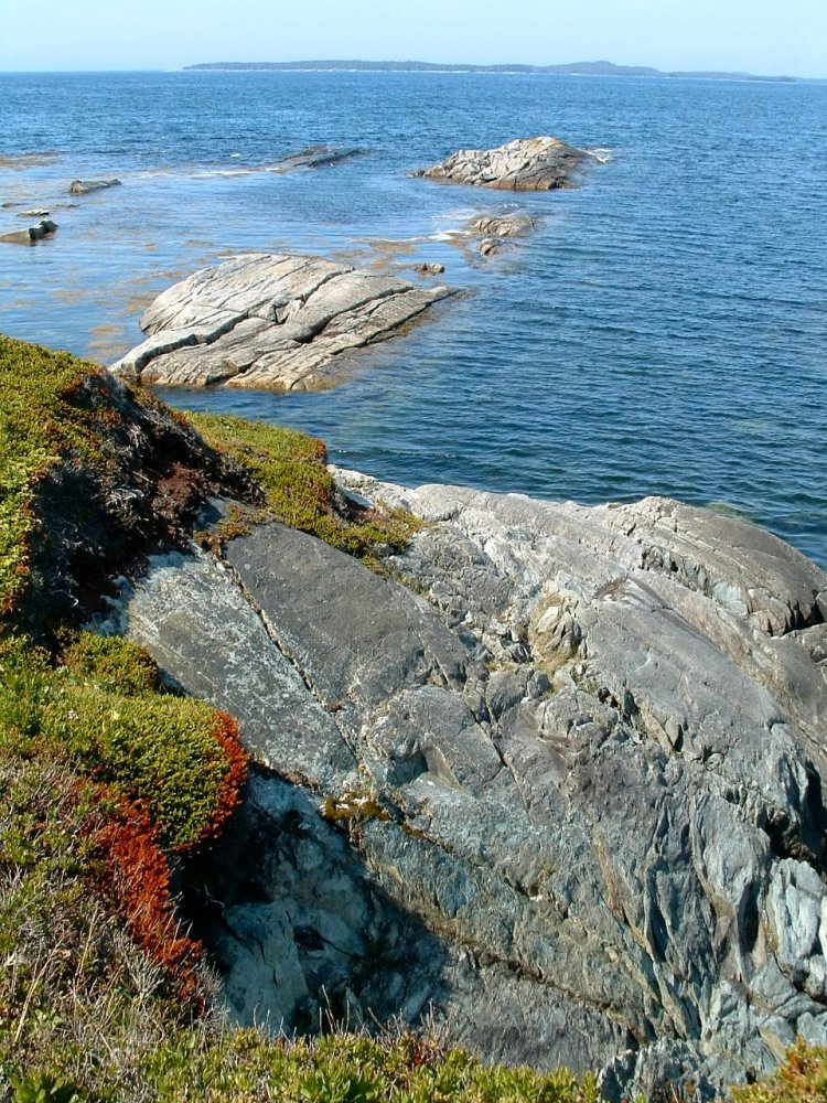 An original image created in 2004 using a Fuji FInepix 3800 camera 3.2 meg. File @ 300dpi is 2.5 X 3.3 inches.